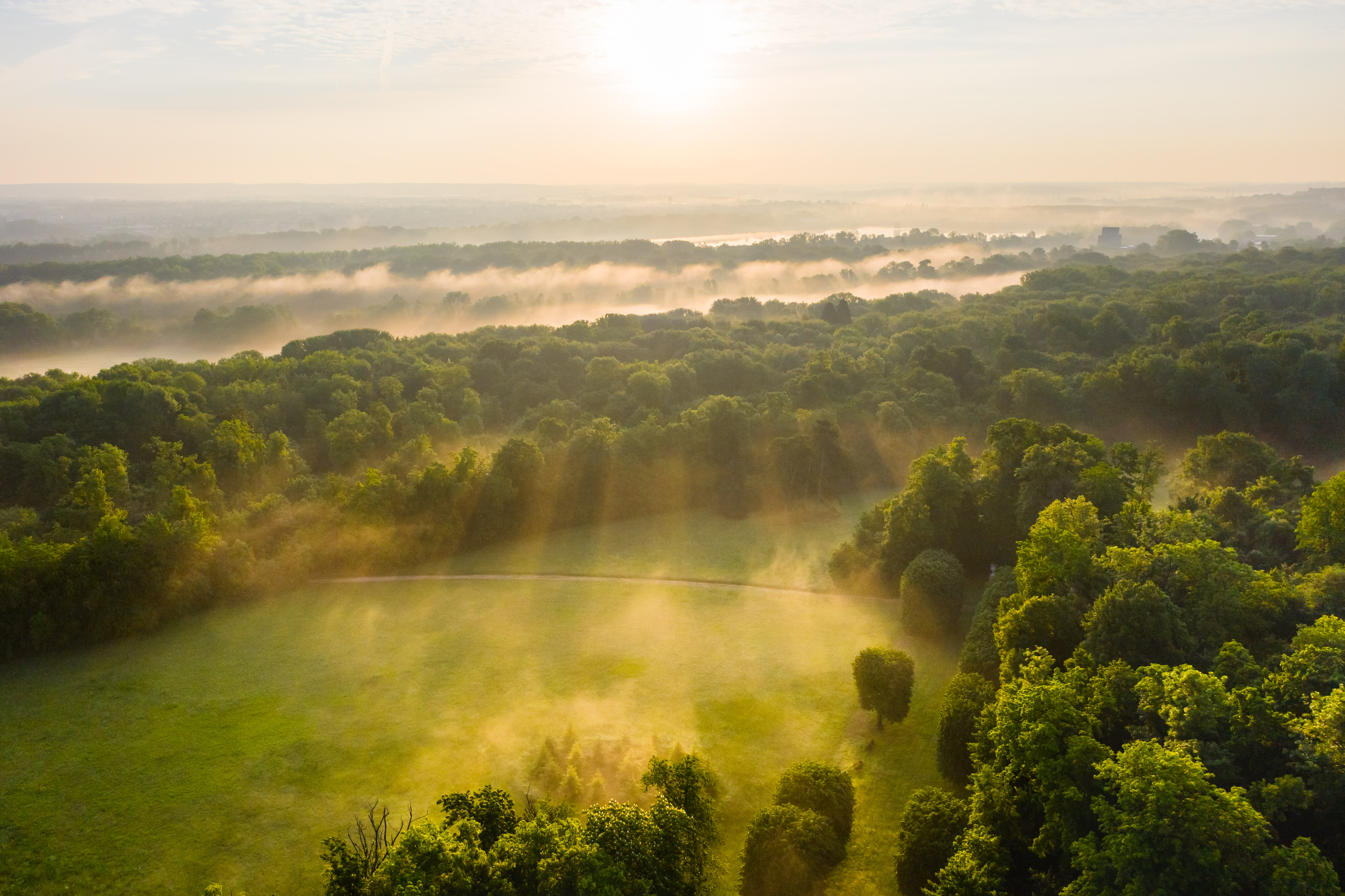 Crepuscular rays over parc de Noisiel (park of Noisiel) at sunrise. Taken from above the gardens of Champs-sur-Marne castle, Seine-et-Marne, France